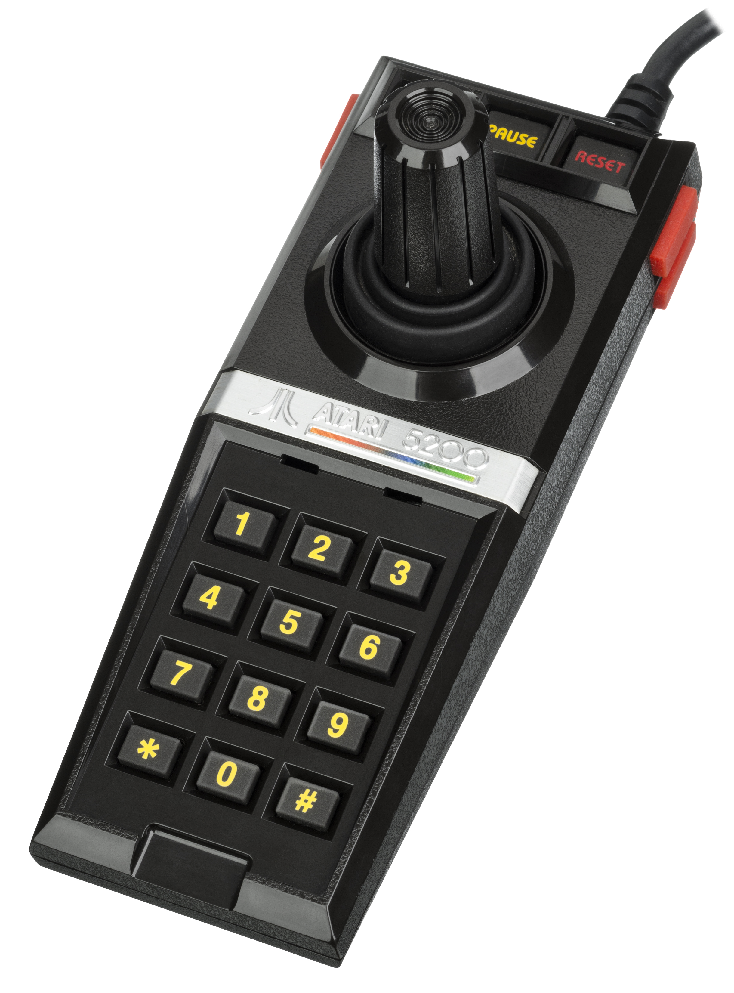 The Atari 5200's controller, a gaming system released by Atari in 1982. The 5200 was Atari's follow-up to the very successful 2600. A larger and more powerful console, it was based on the Atari 8-bit 400/800 computer line. It did not fare well in the market, however, due to Atari's and the gaming market's collapse in 1983. This controller is notable for being very poorly received and prone to breaking. The analog stick is non-centering, making it not well suited for a variety of game types.